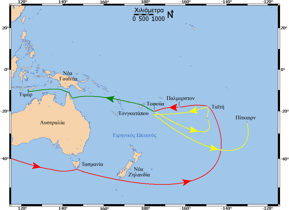 Labeled map of the voyages of the HMAV Bounty: voyage prior to mutiny is red, voyage of Bounty after mutiny is yellow, voyage of Bligh and others in the longboat is green. Five labeled small islands enlarged for visibility (not to scale)